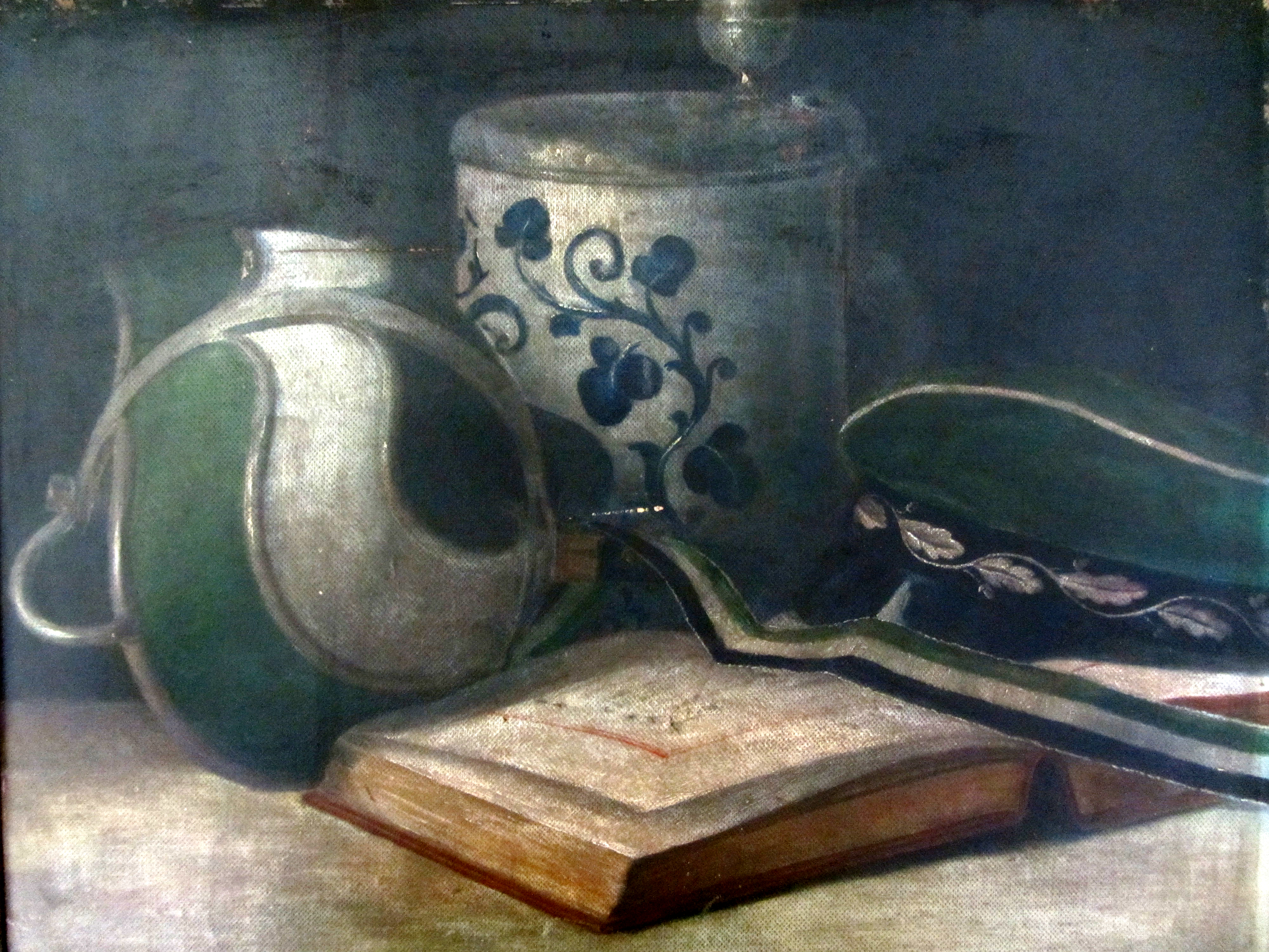 Couleurgegenstände der Landmannschaft Hansea auf dem Wels